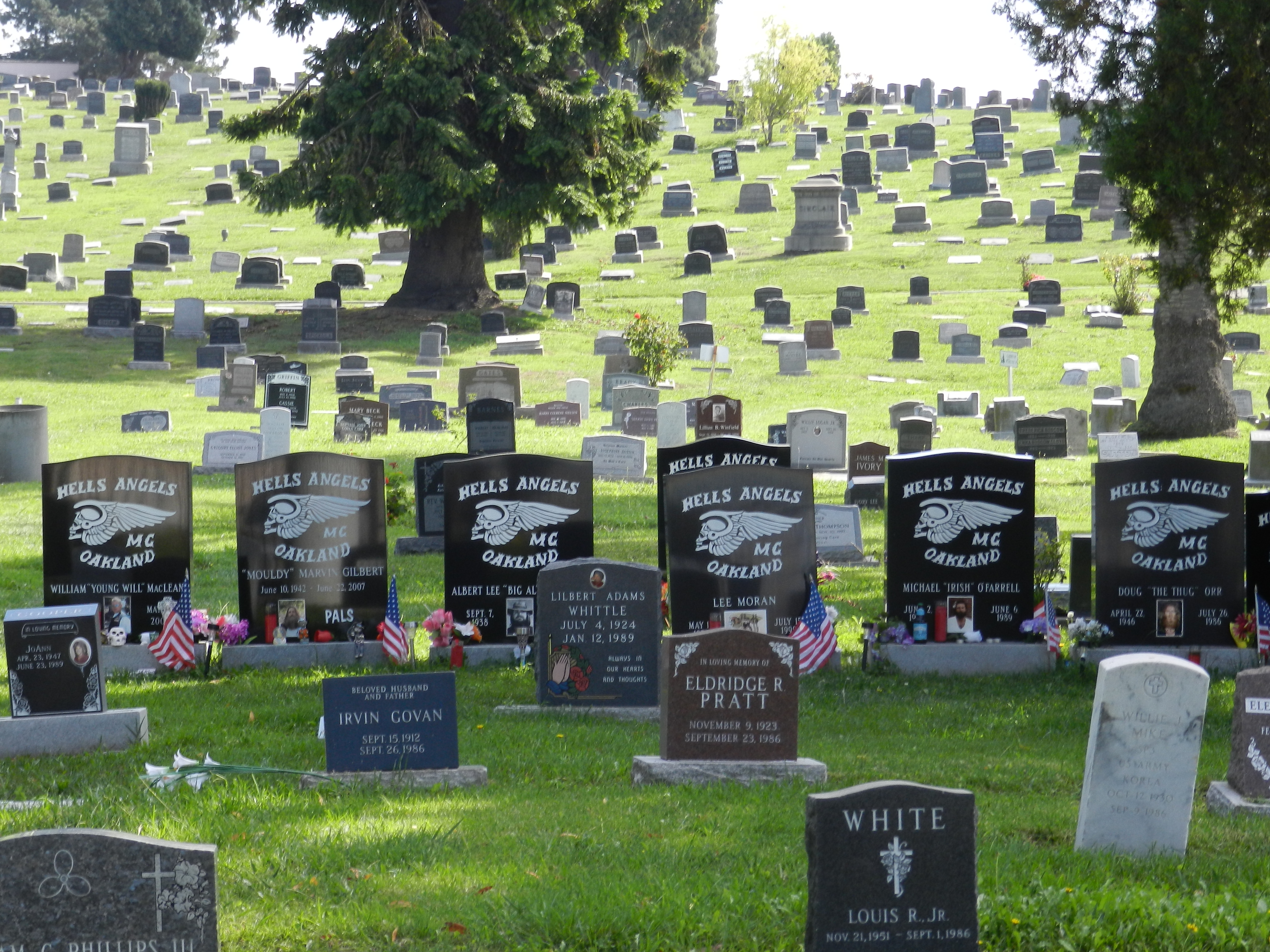 Hell's Angels gravesite, Evergreen Cemetery, Oakland, California